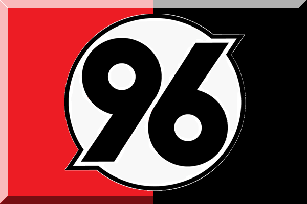 Colours of German football team Hannover 96